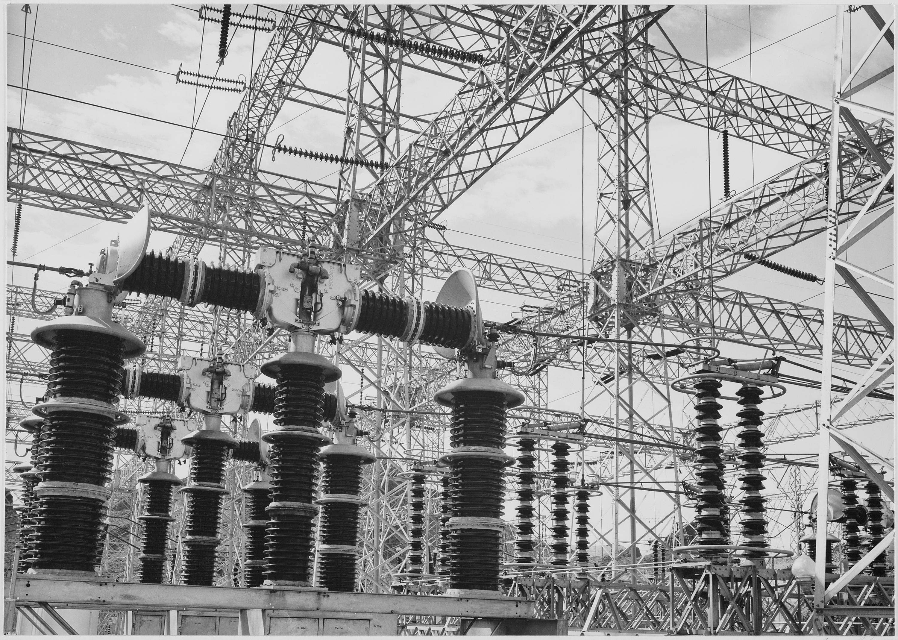 Photograph of Electrical Wires of the Boulder Dam Power Units; From the series Ansel Adams Photographs of National Parks and Monuments, compiled 1941 - 1942, documenting the period ca. 1933 - 1942.